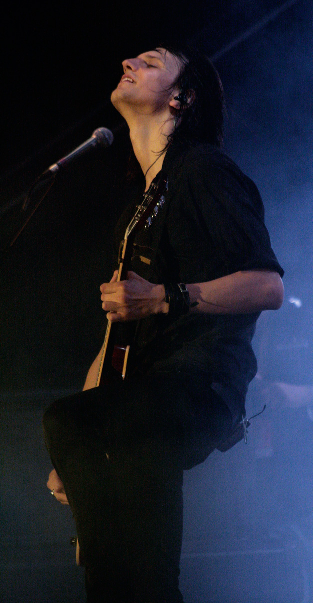 Silbermond at the Donauinselfest 2009